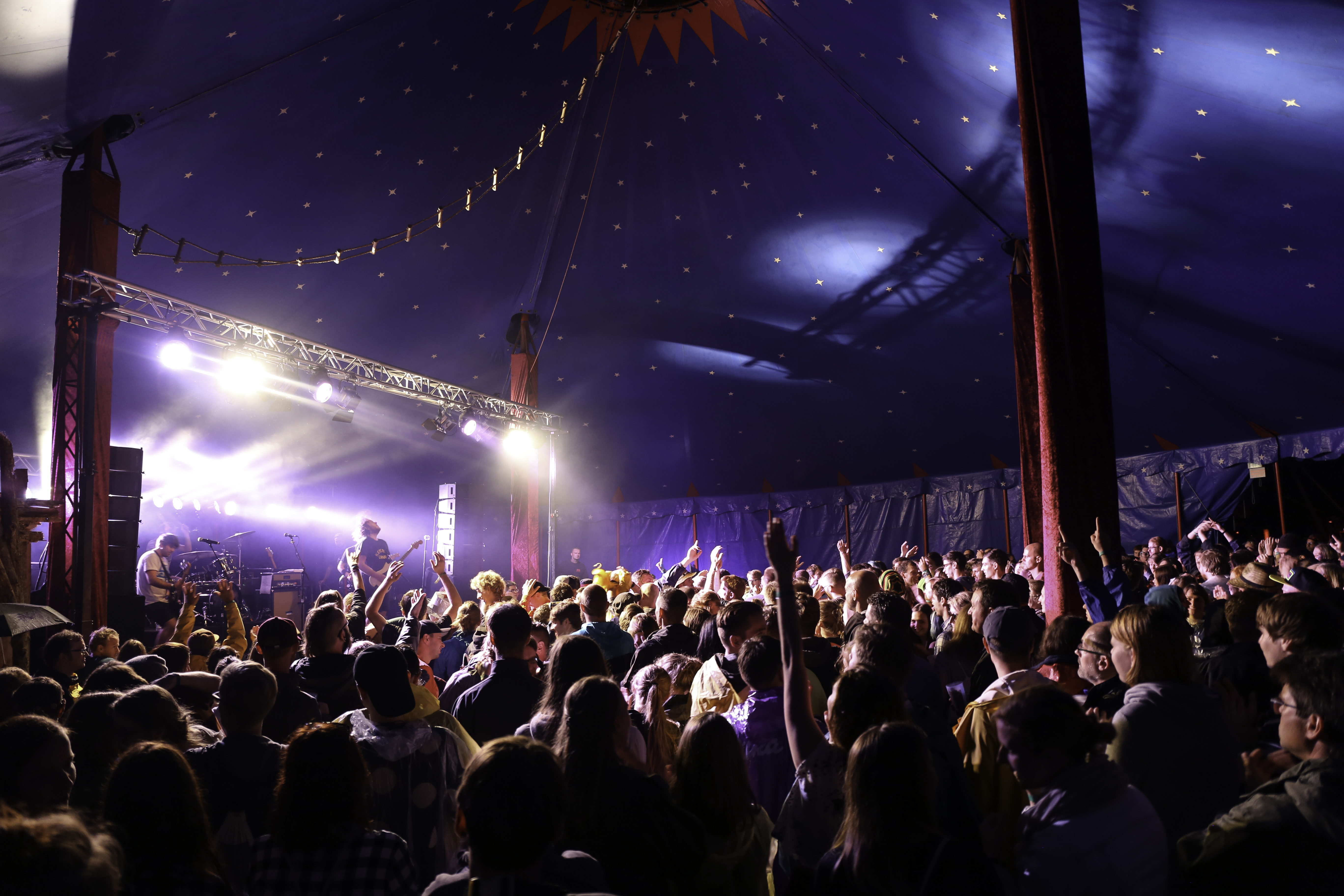 The Australian rock band The Smith Street Band at the "Rocken am Brocken" Open Air 2016 in Elend/Germany.